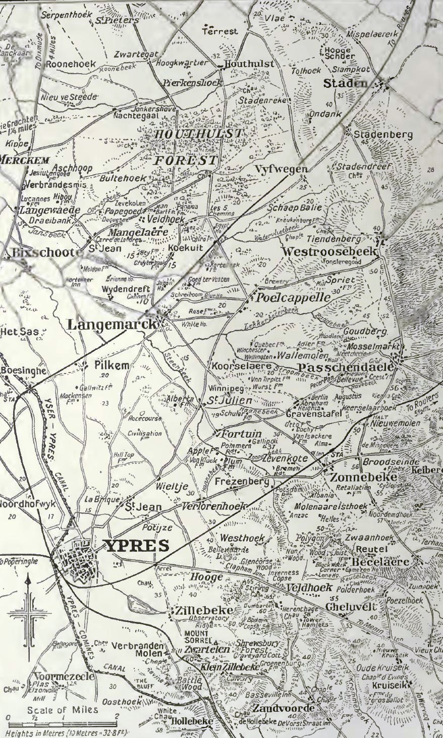 Map Passchendaele ridge, 1917